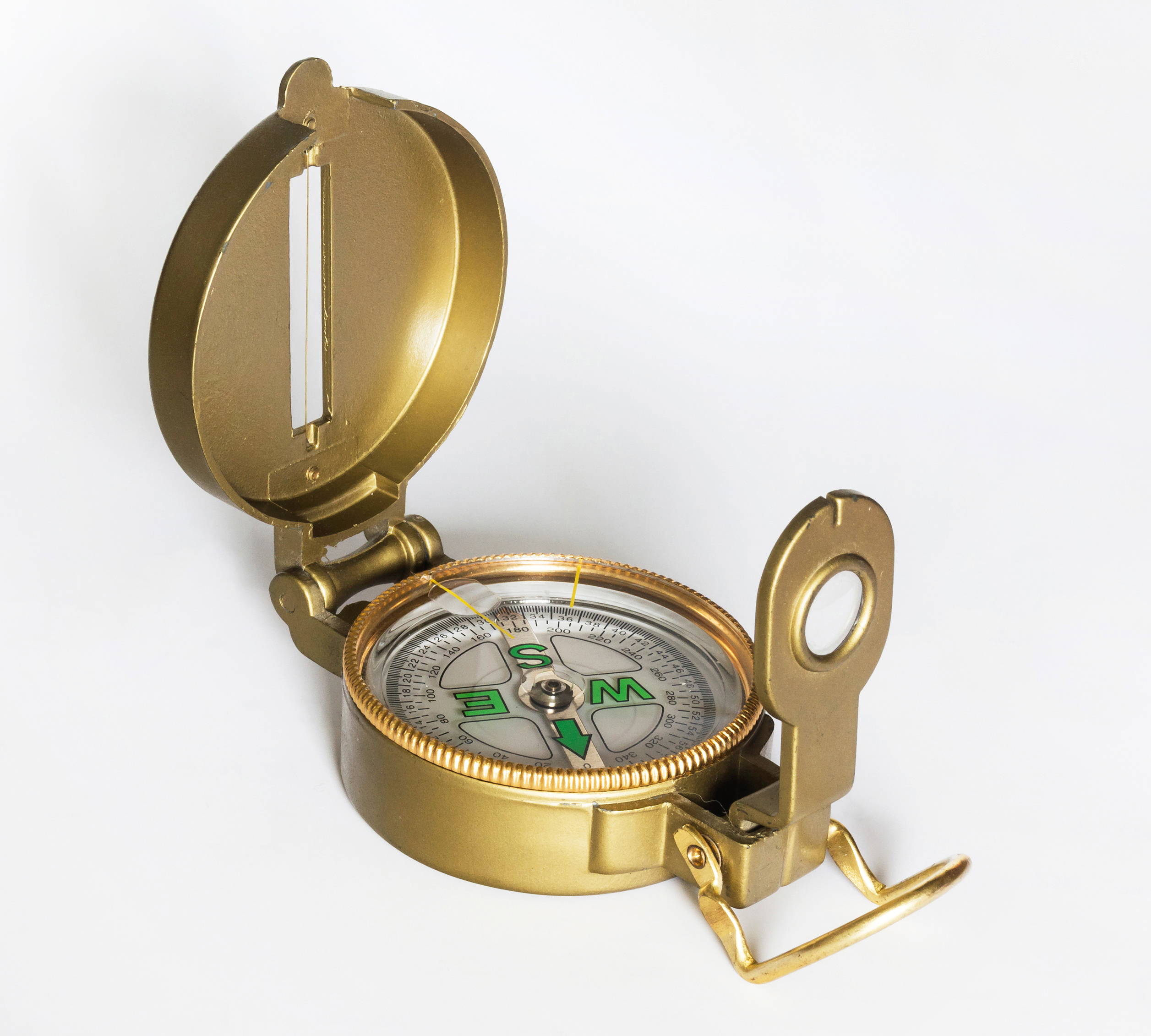 Compass with sighting